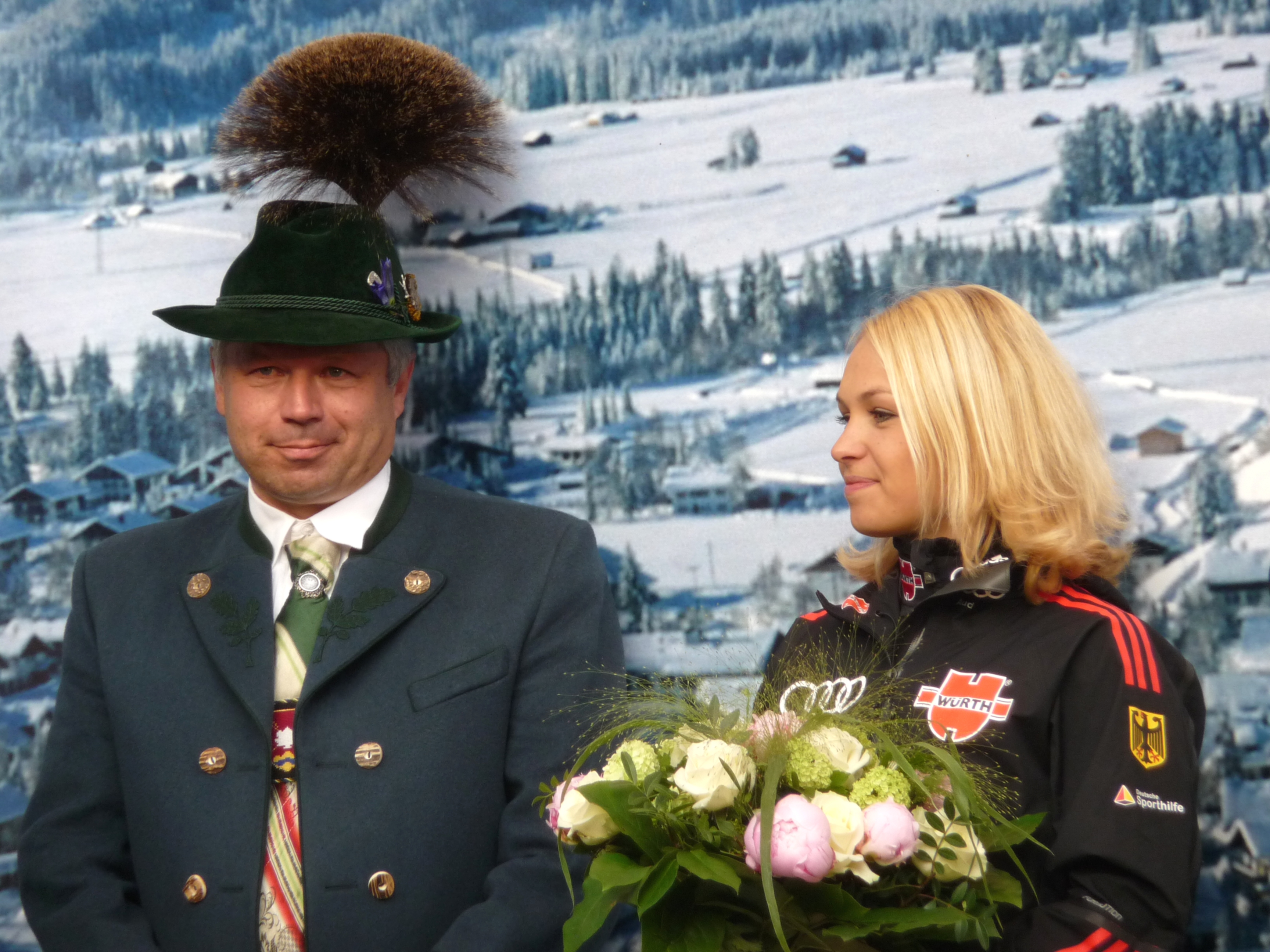 Mayor Hansjörg Zahler and Magdalena Neuner at a festivity in Wallgau, Germany, April 29, 2011